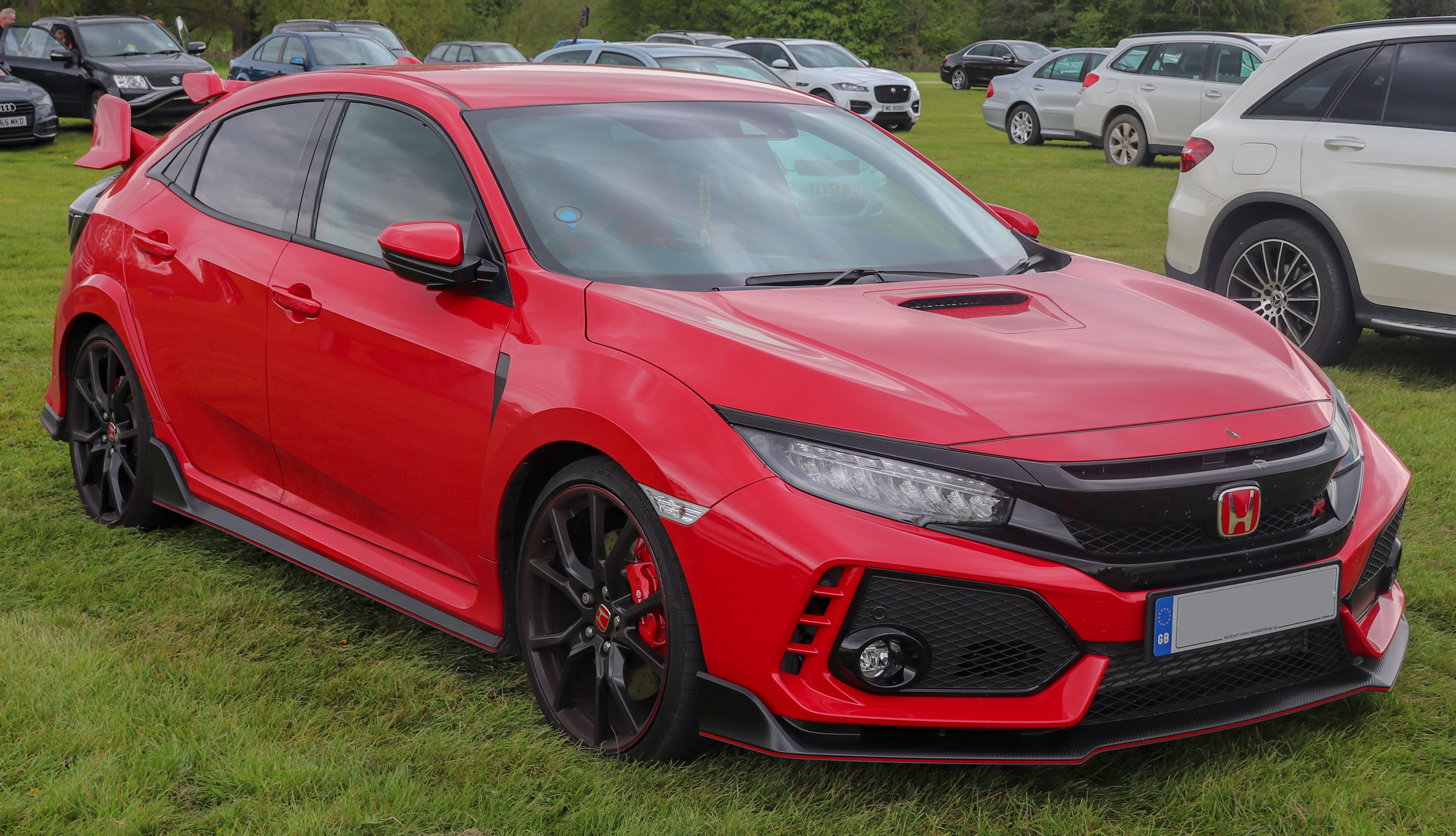 2018 Honda Civic GT Type R VTEC 2.0 Front Taken in NAEC Stoneleigh, Warwickshire